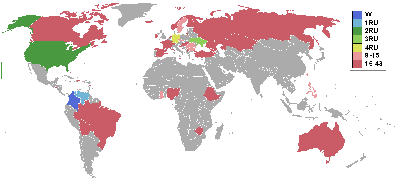 Top Model of the World 2010 Results